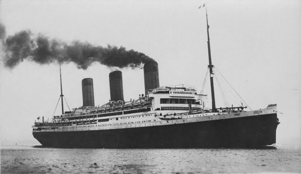 RMS Majestic from an old postcard